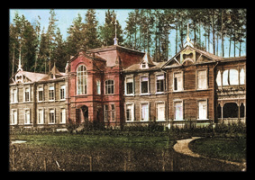 Photo of sanatorium «Lesnoe», Togliatti (Stavropol), Russia